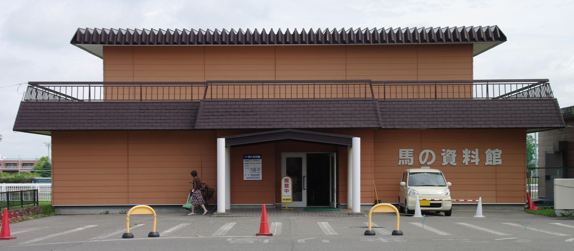 Museum of horses in Obihiro racecourse, Obihiro, Hokkaido, Japan